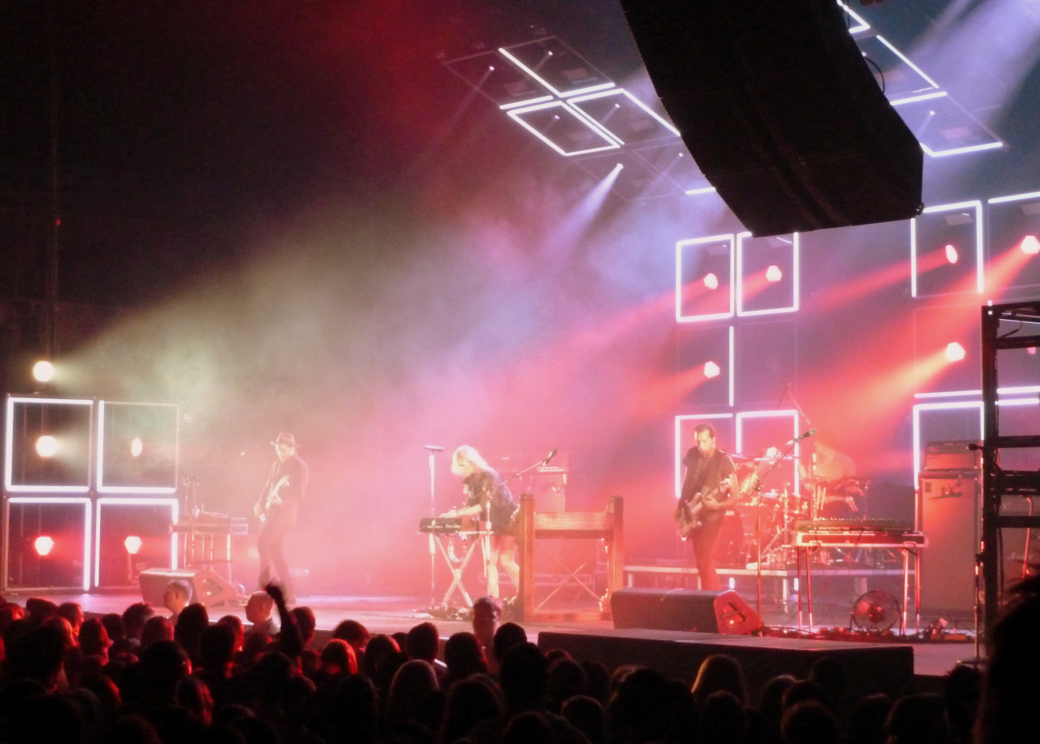 Canadian band Metric performing at Budweiser Gardens in London, Ontario